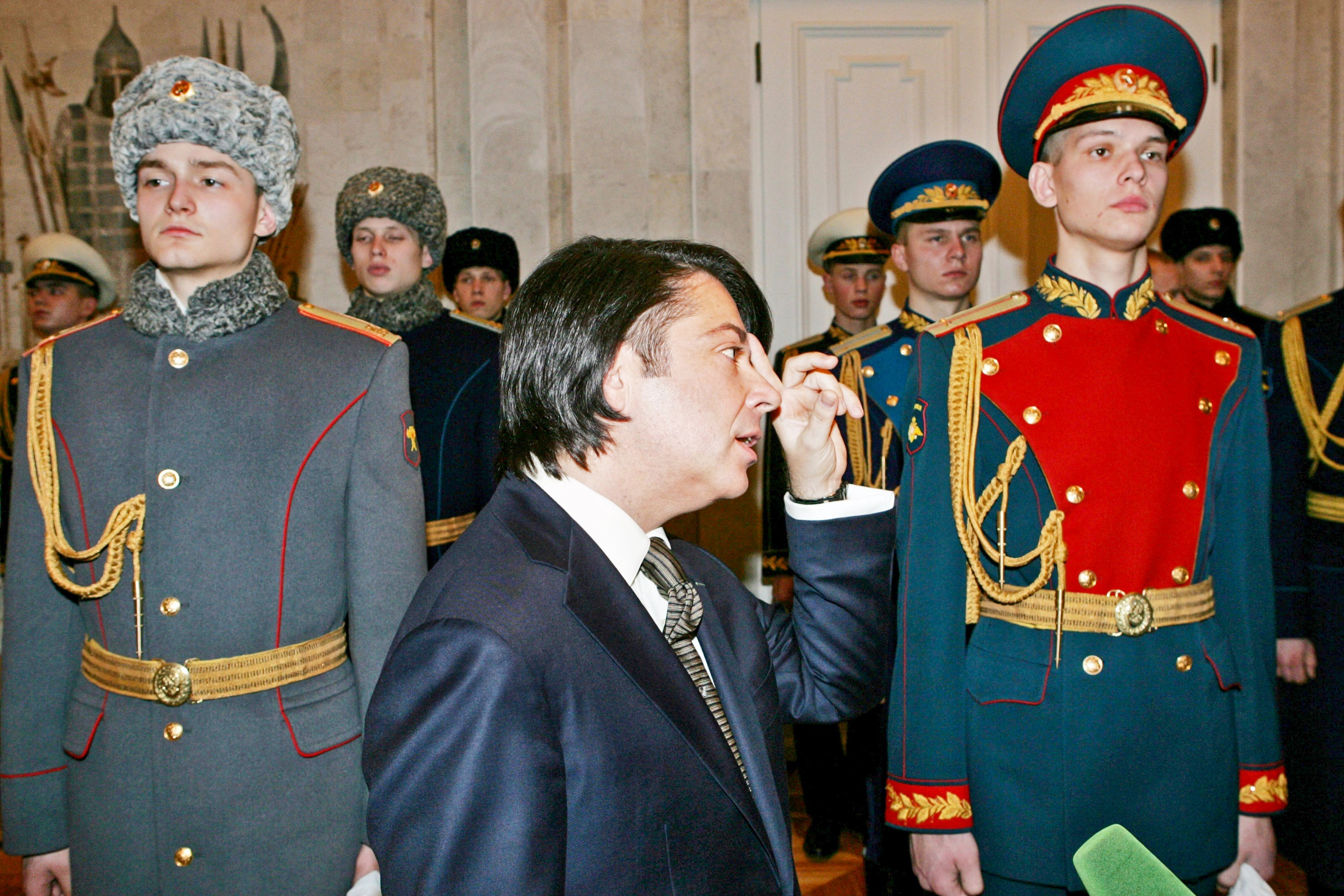 DEFENCE MINISTRY, MOSCOW. Fashion designer Valentin Yudashkin at an inspection by the President of the new Russian Armed Forces uniforms.